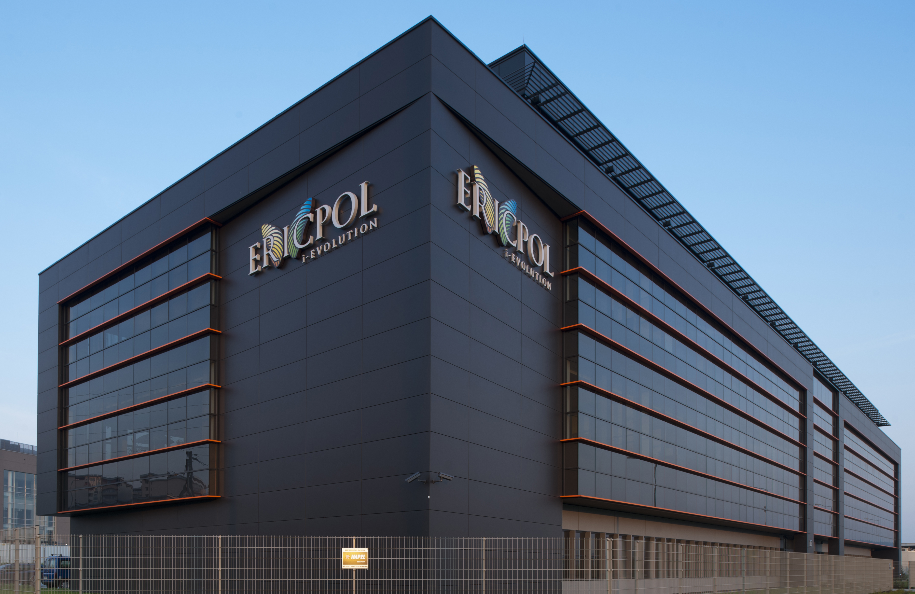 Ericpol Telecom office in Krakow (Bobrzyńskiego St.)